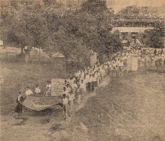 Takatha (RUSU) leads the peaceful demonstration against imposed new restricted hall rules in 2 p.m, 7-7-62.